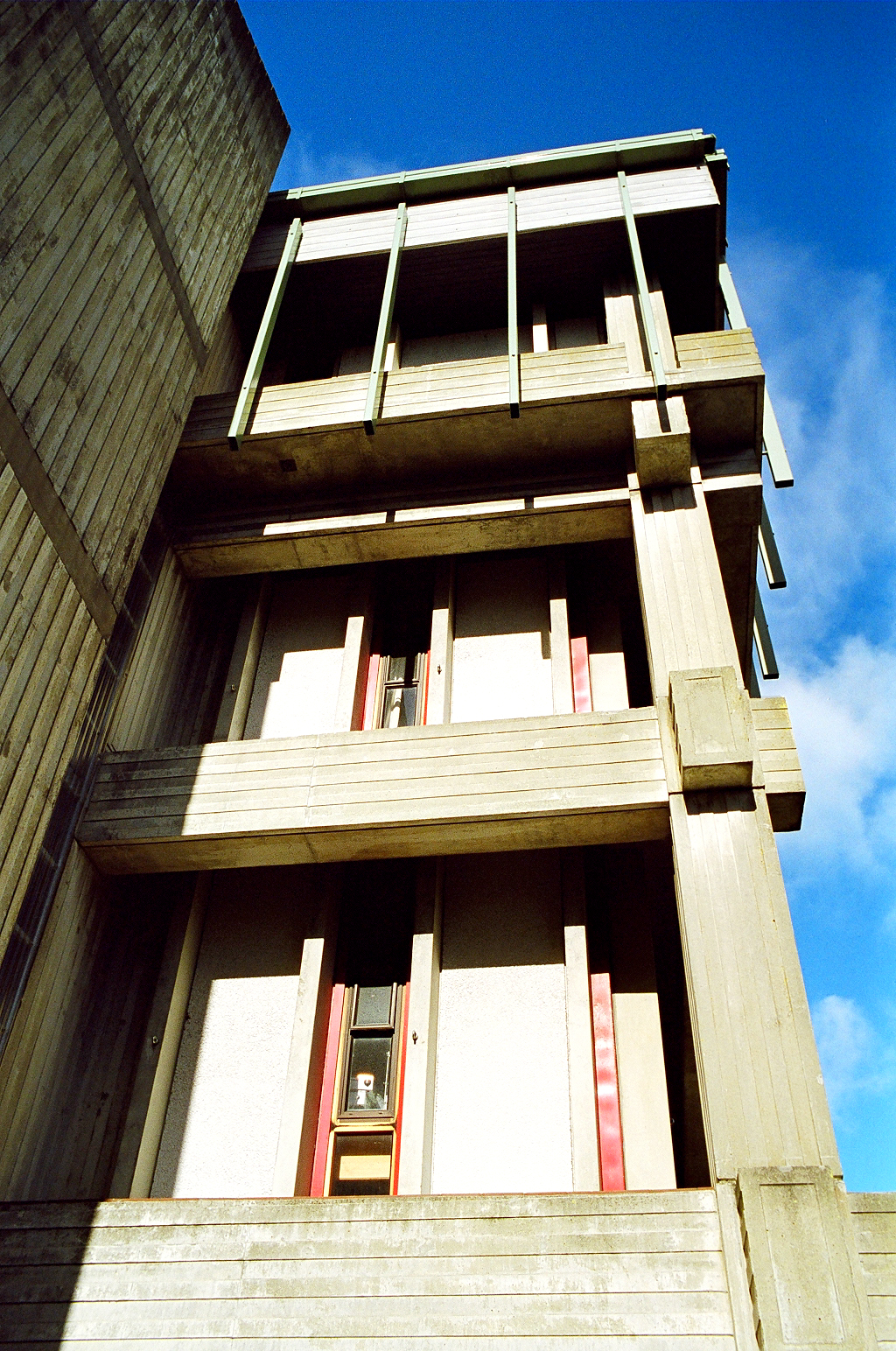 Author's photo